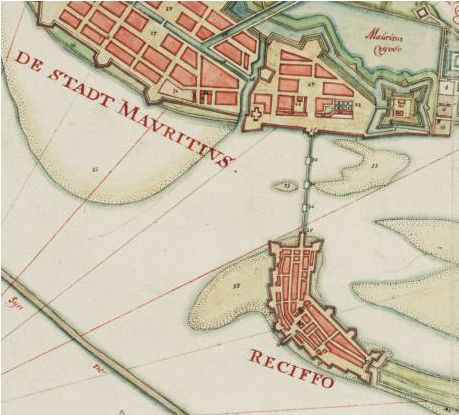 Map of Recife (Brazil) in the 17th century showing the bridge that linked the Recife neighbourhood ("Reciffo") and Mauritius City ("Stadt Mauritius").